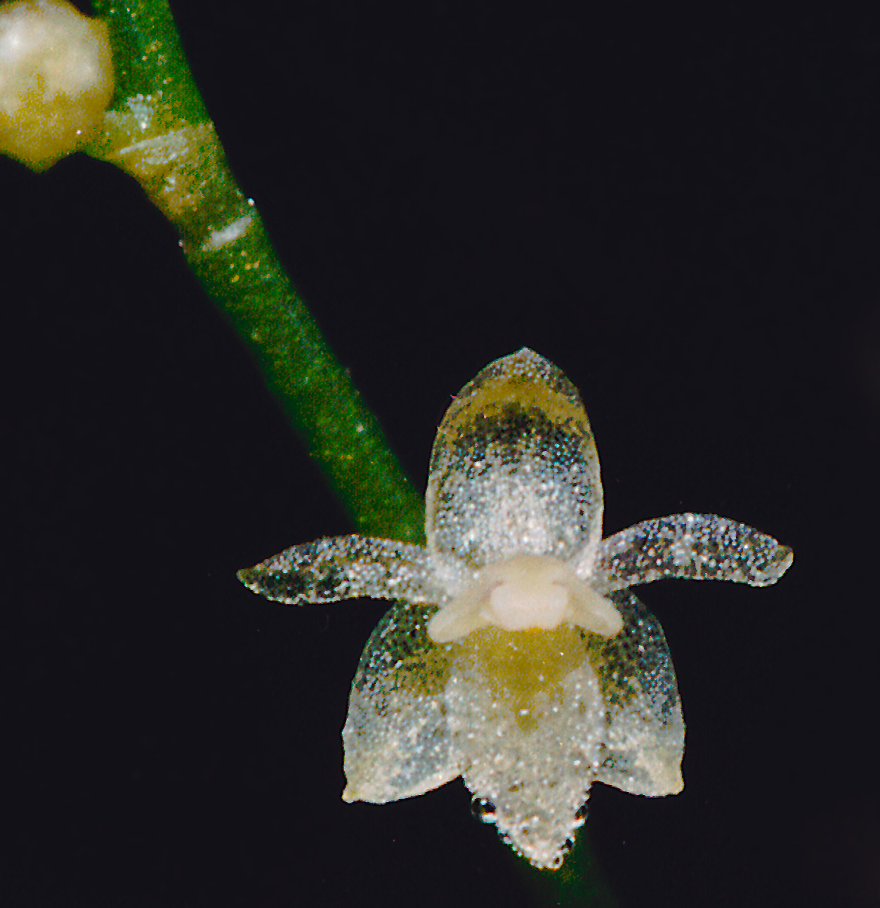 Platystele - world's smallest orchid